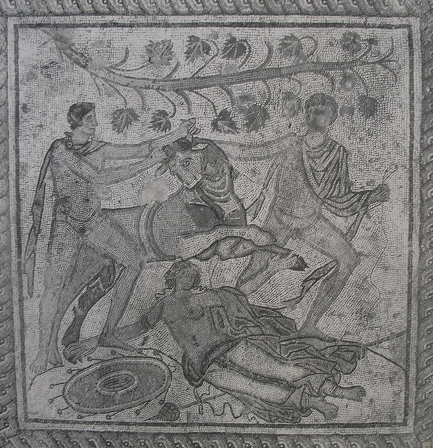 The punishment of Dirces. Roman mosaic, Pula archaeological museum